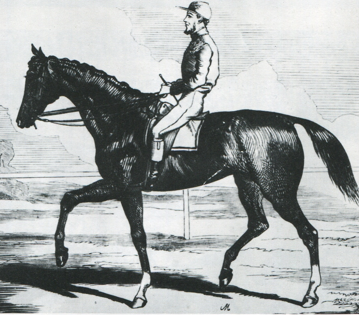 John Tait's Fireworks (1864), winner of VRC Derbies in 1867 & 1868; VRC Champion Stakes, St Leger and Derby Stakes.